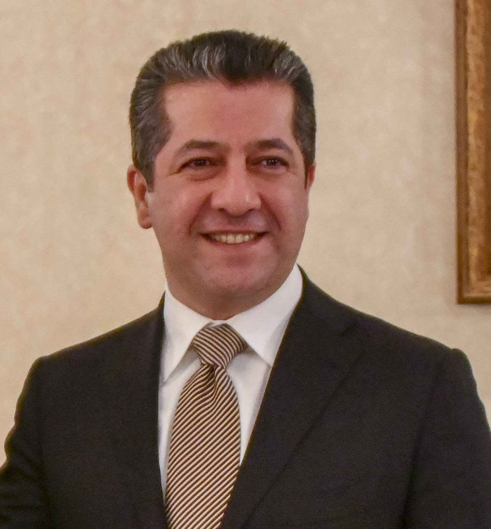 U.S. Secretary of State Michael R. Pompeo meets with Kurdistan Regional Government Security Chancellor Masrour Barzani, in Erbil, Iraq, on January 9, 2019. [State Department Photo/ Public Domain]